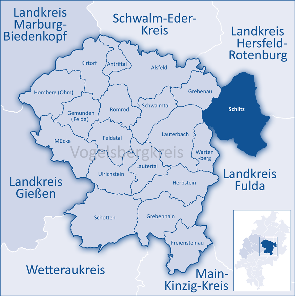 The map shows a district in the area of Vogelsbergkreis